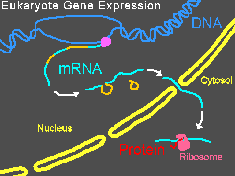 This image was created by Jon D. Moulton of Gene Tools, LLC and is made available under the GNU Free Documentation License .